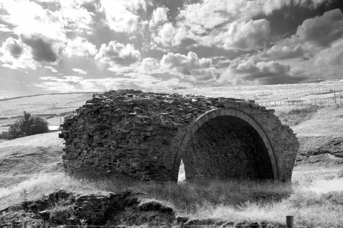 Rookhope Arch, remains of chimney viaduct from Lintzgarth lead smelting works, Rookhope, Co. Durham